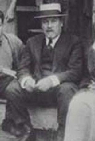 Paul Cornoyer